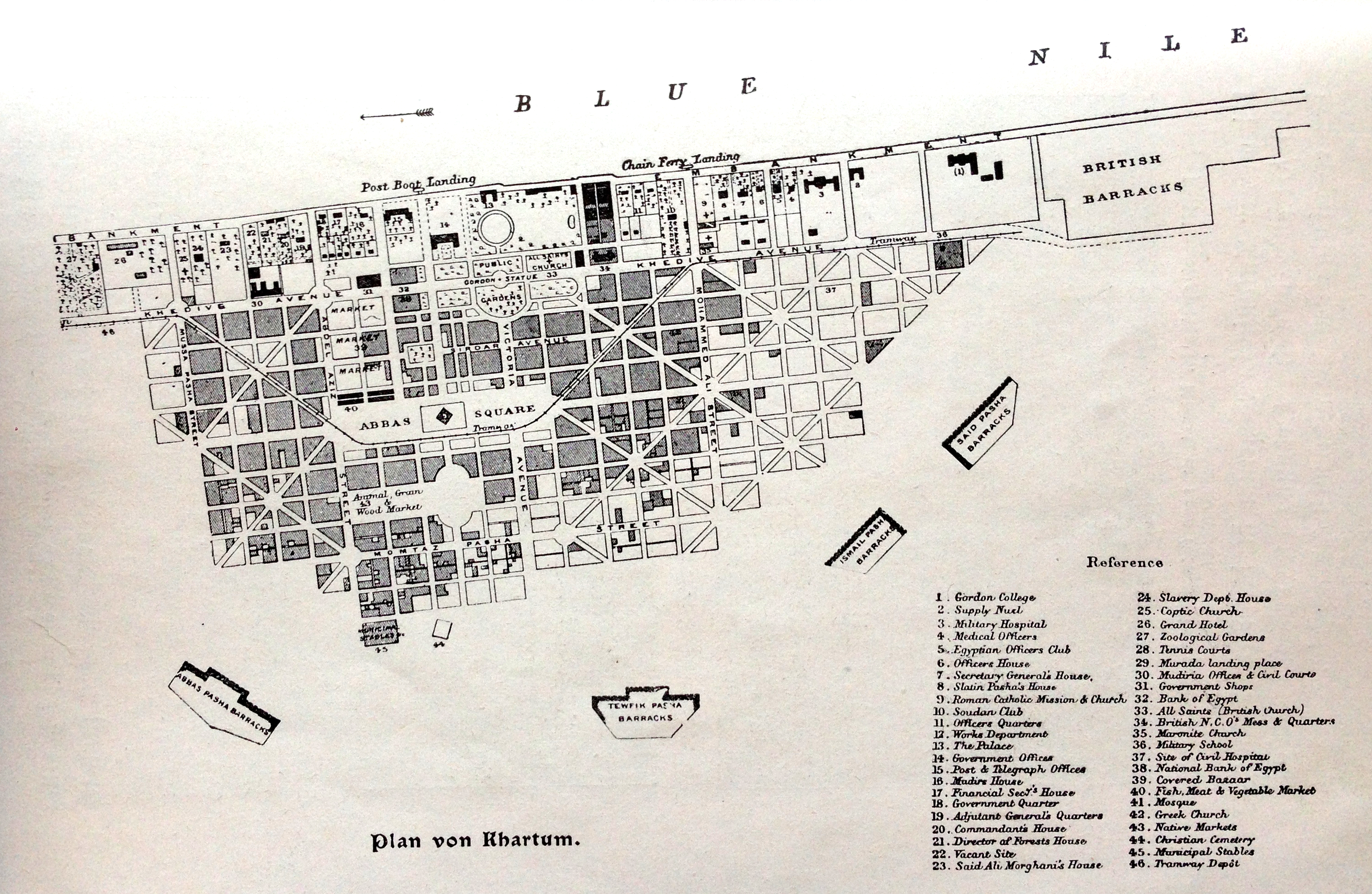 Map of Khartoum from a 1907 publication by Comboni Missionary Bishop Franz Xaver Geyer, who travelled Sudan extensively in the 1900s